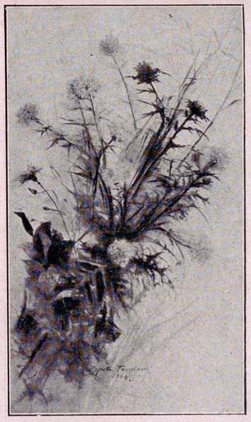 Watercolor named "Blauets" (blueberry) by Josefa Teixidor, presented at the National Exhibition of Fine Arts in Madrid in 1904.